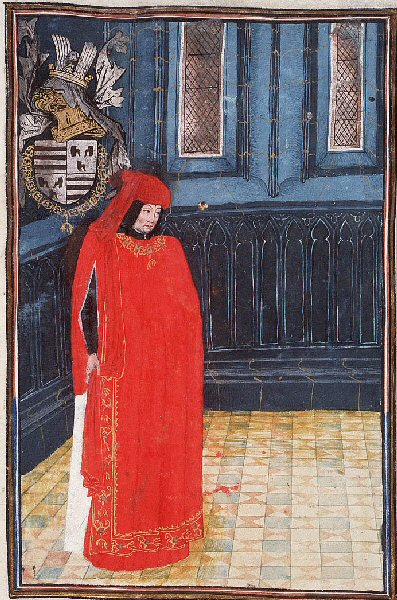 Antoine le Grand, Sieur de Croy, on a 15th-century miniature.